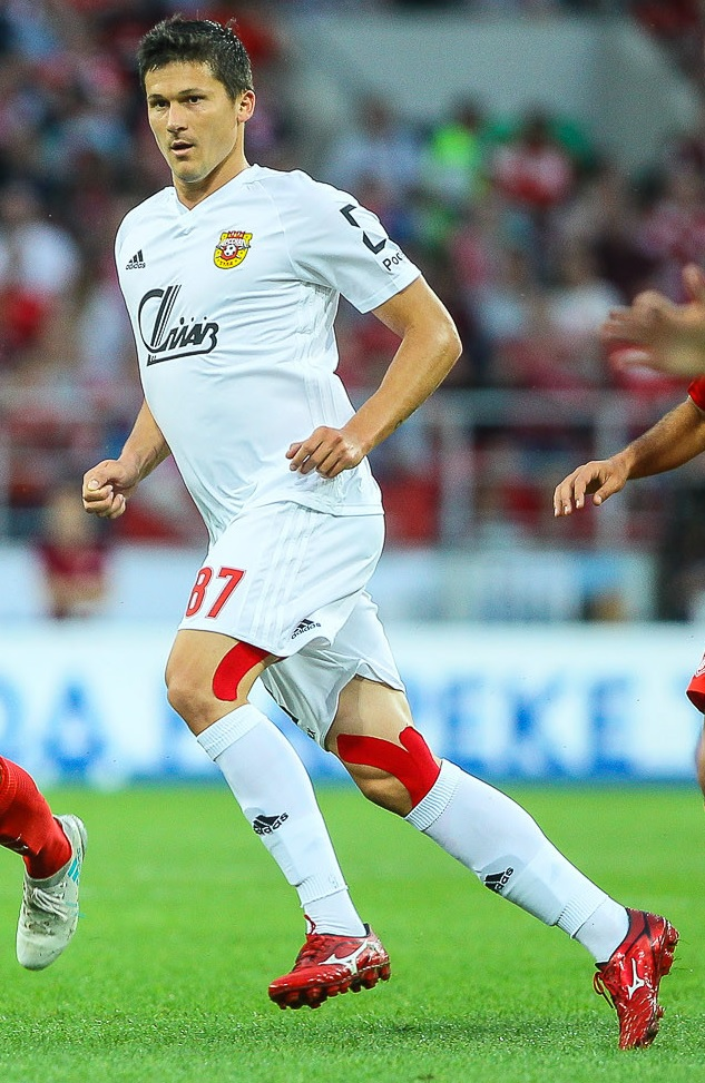 Ilya Maksimov with FC Arsenal Tula in a game against FC Spartak Moscow.